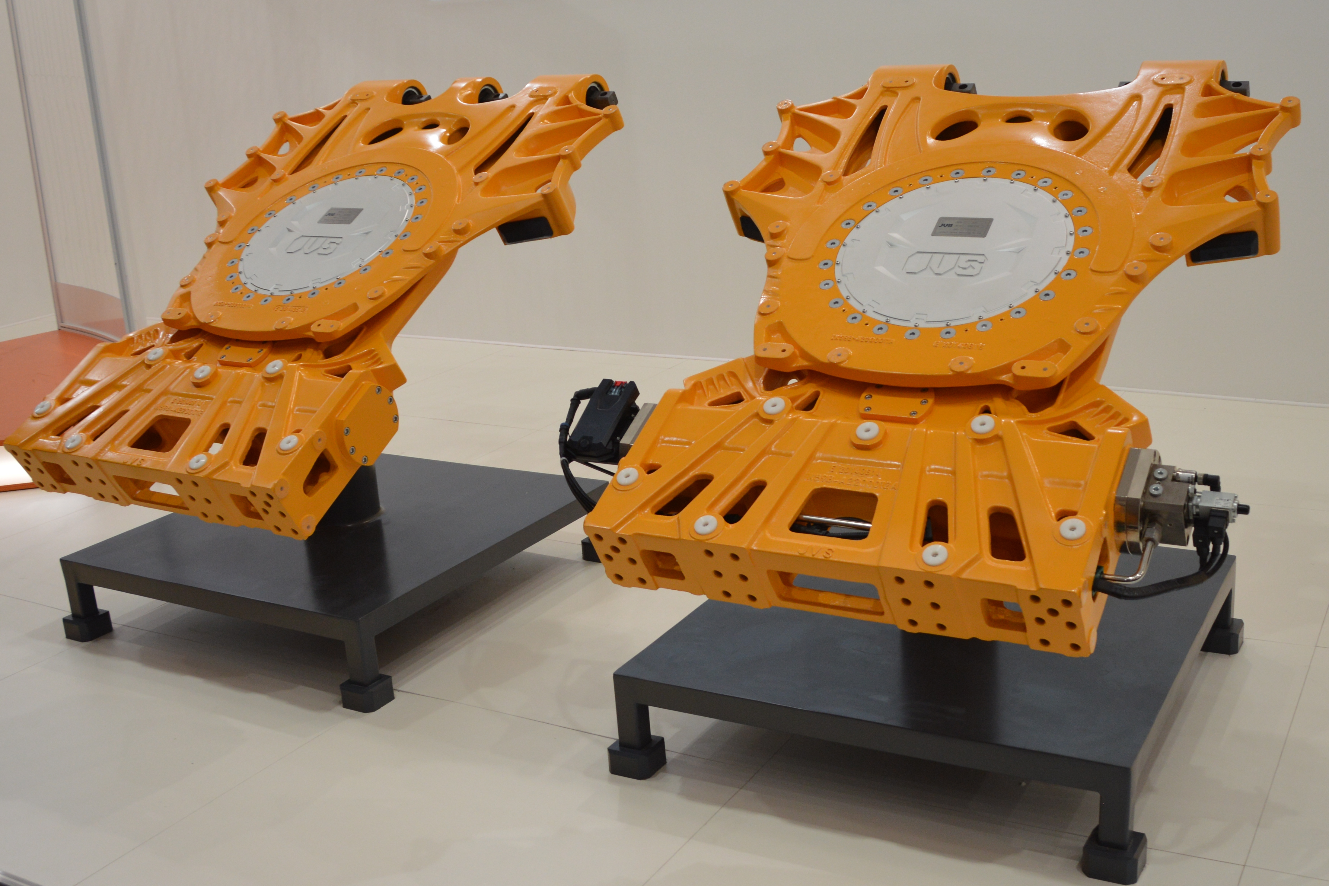 Articulation systems for urban buses: Left: Articulation system IK59F for front engine 14-18m urban articulated buses (pull type). Weight: 520 kg. Platform radius: 920mm. Right: Articulation system IK59B for rear engine 14-18m urban articulated buses (push type). Weight: 593 kg. Platform radius: 920mm. Manufacturerer: JVS Jointech Vehicle System Co., Ltd. Photo taken at exhibition IAA 2014 in Hanover, Germany.